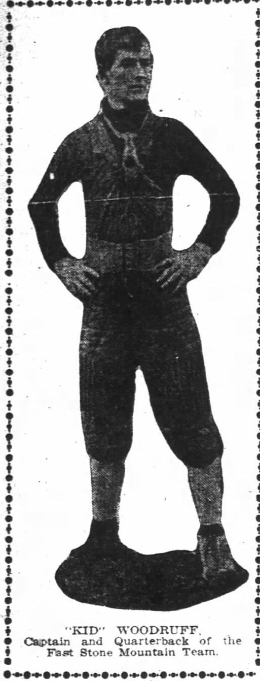 Kid Woodruff in football uniform at the University School for Boys in Stone Mountain, GA.